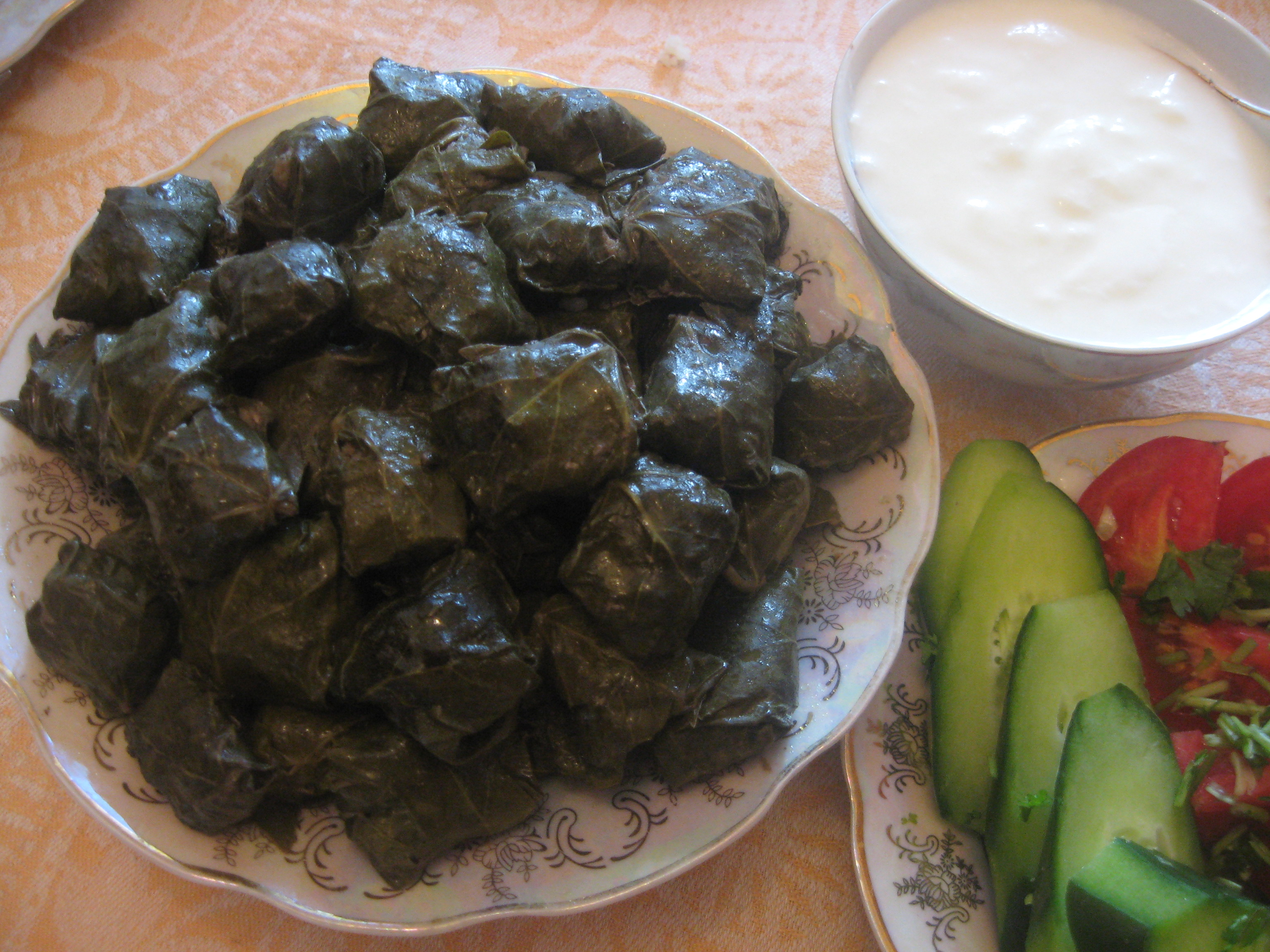 Azerbaijani dish cooked by wrapping round forcemeat mixed with rice in vine leaves or cabbage